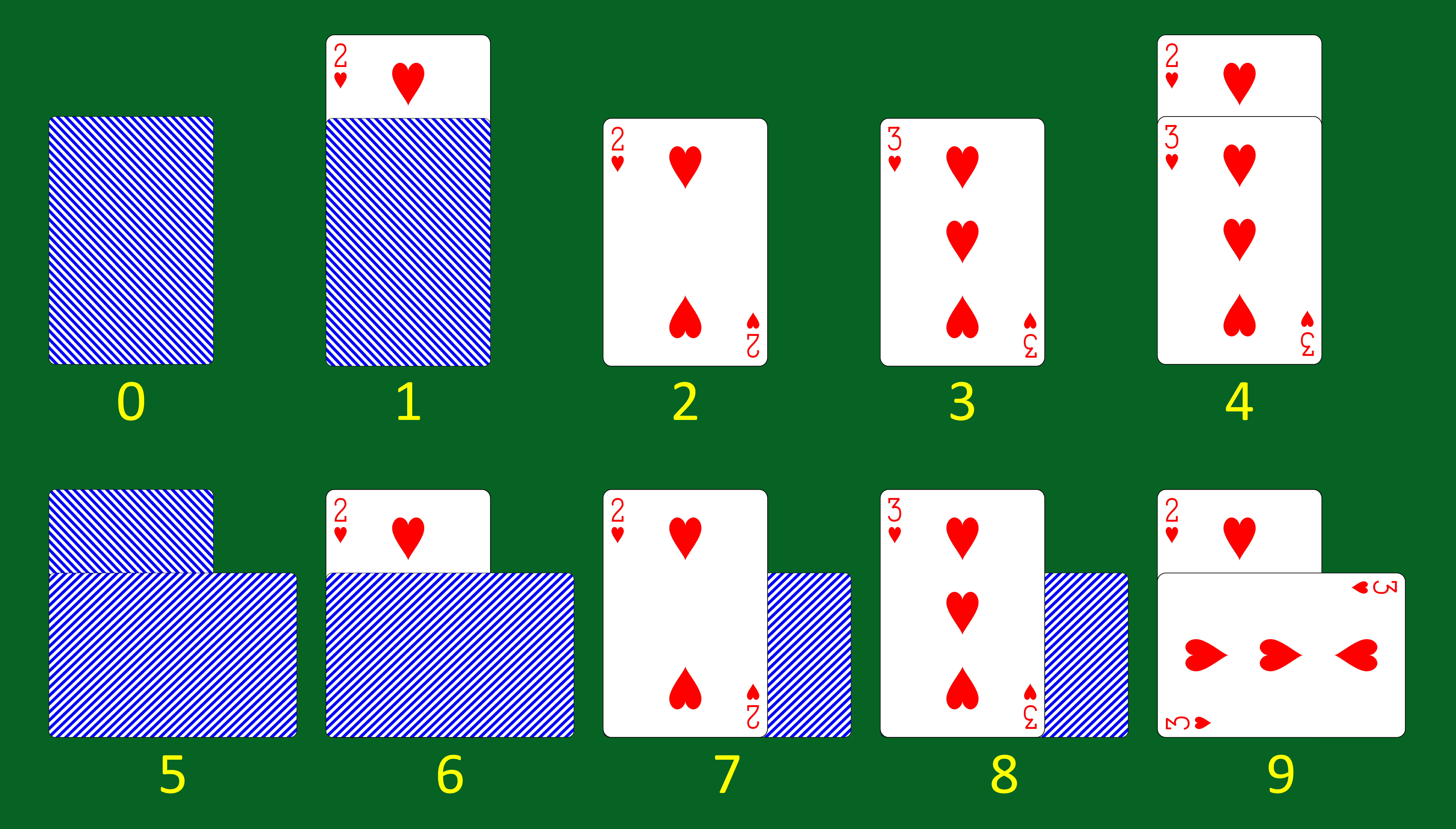 Scorekeeping in the Euchre card game using 2s and 3s as counters